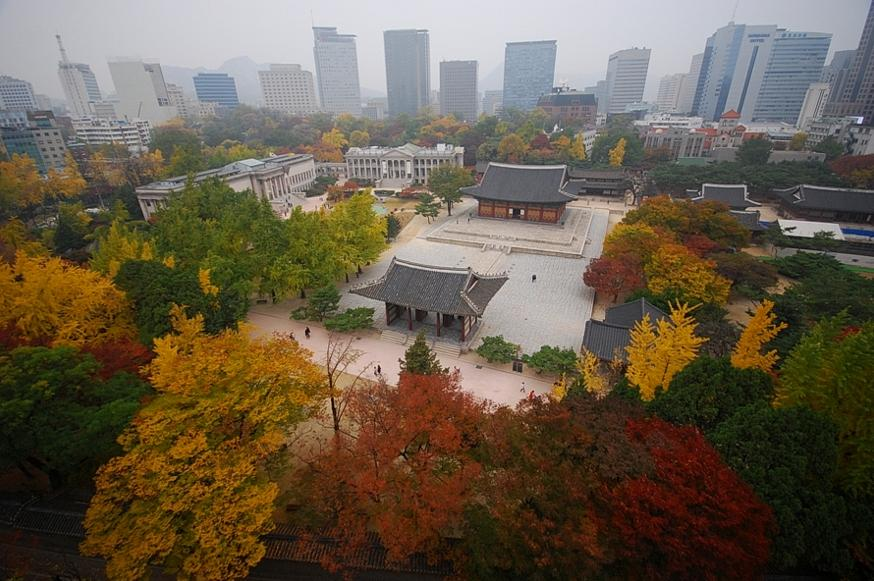 Deoksugung palace in Seoul, South korea.